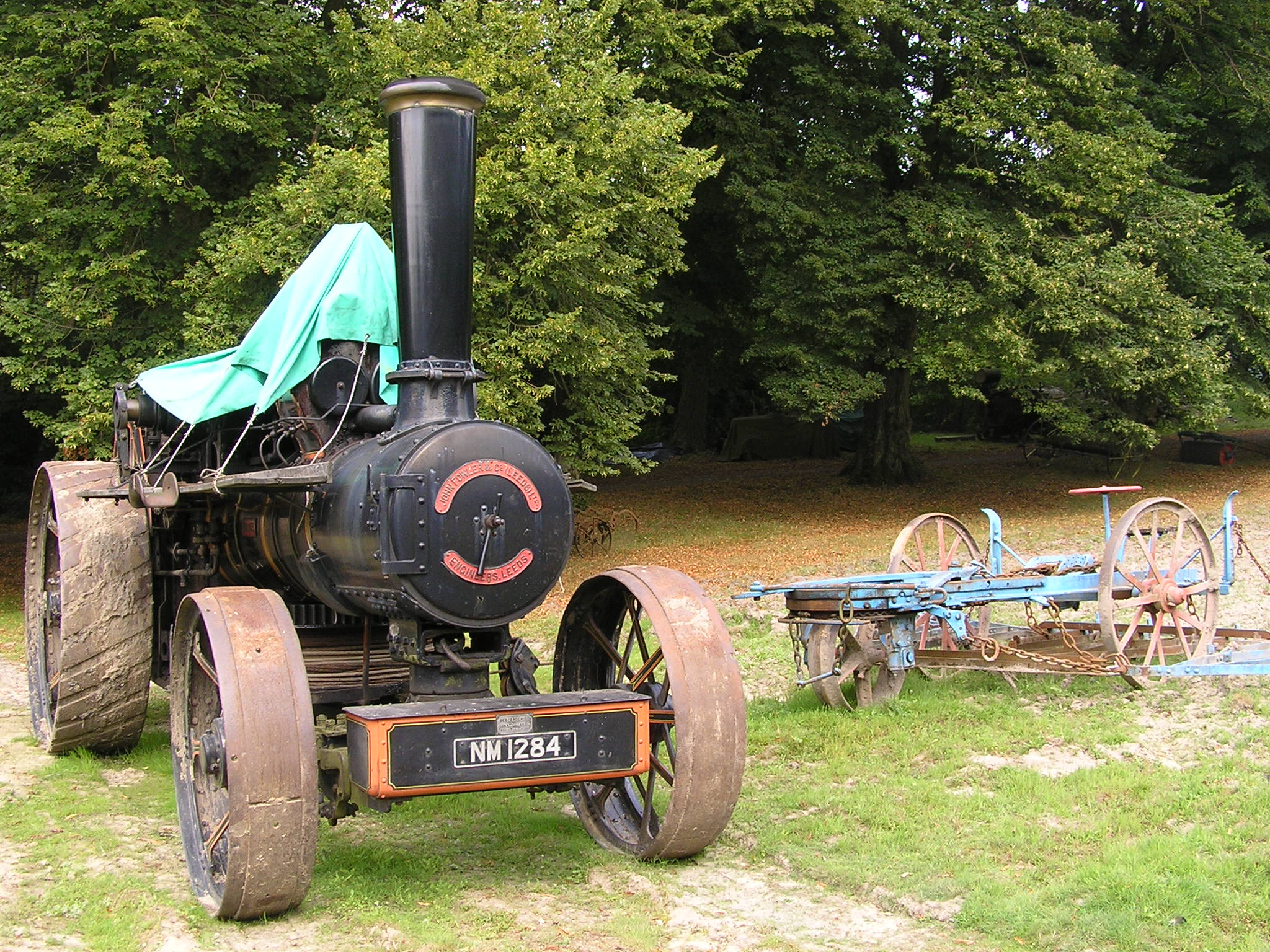 Fowler 16NHP BB plough engine 14383 'Prince' (1917) Hollycombe, Liphook 3.8.2004 P8030066